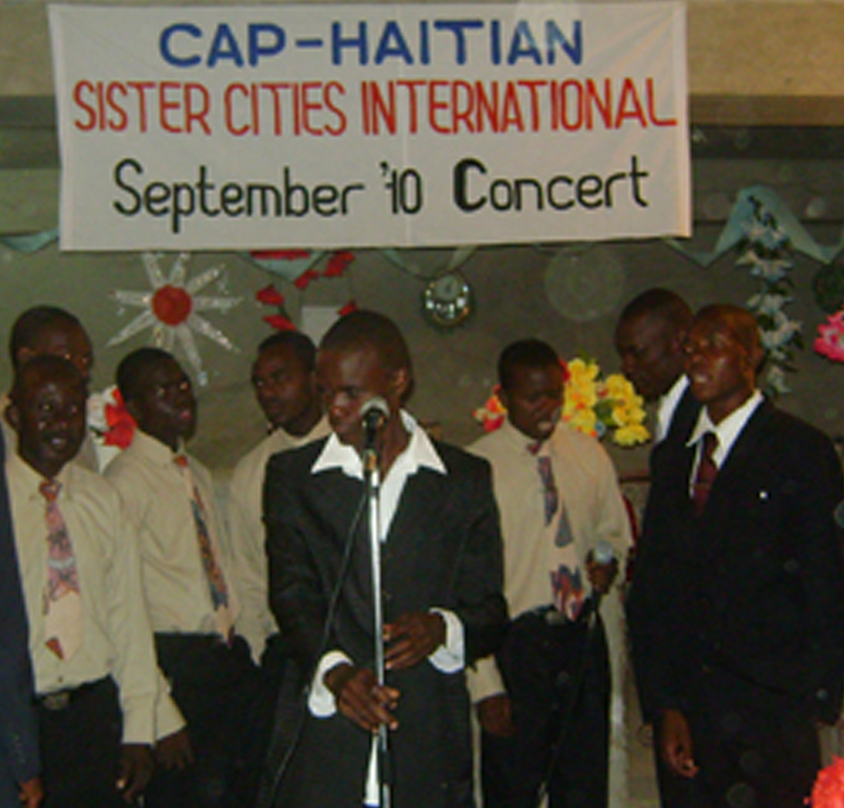 Sept Concert in Haiti